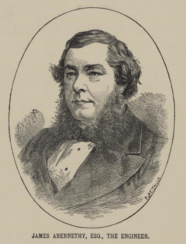 A portrait from the Welsh Portrait Collection at the National Library of Wales. Depicted person: James Abernethy – civil engineer